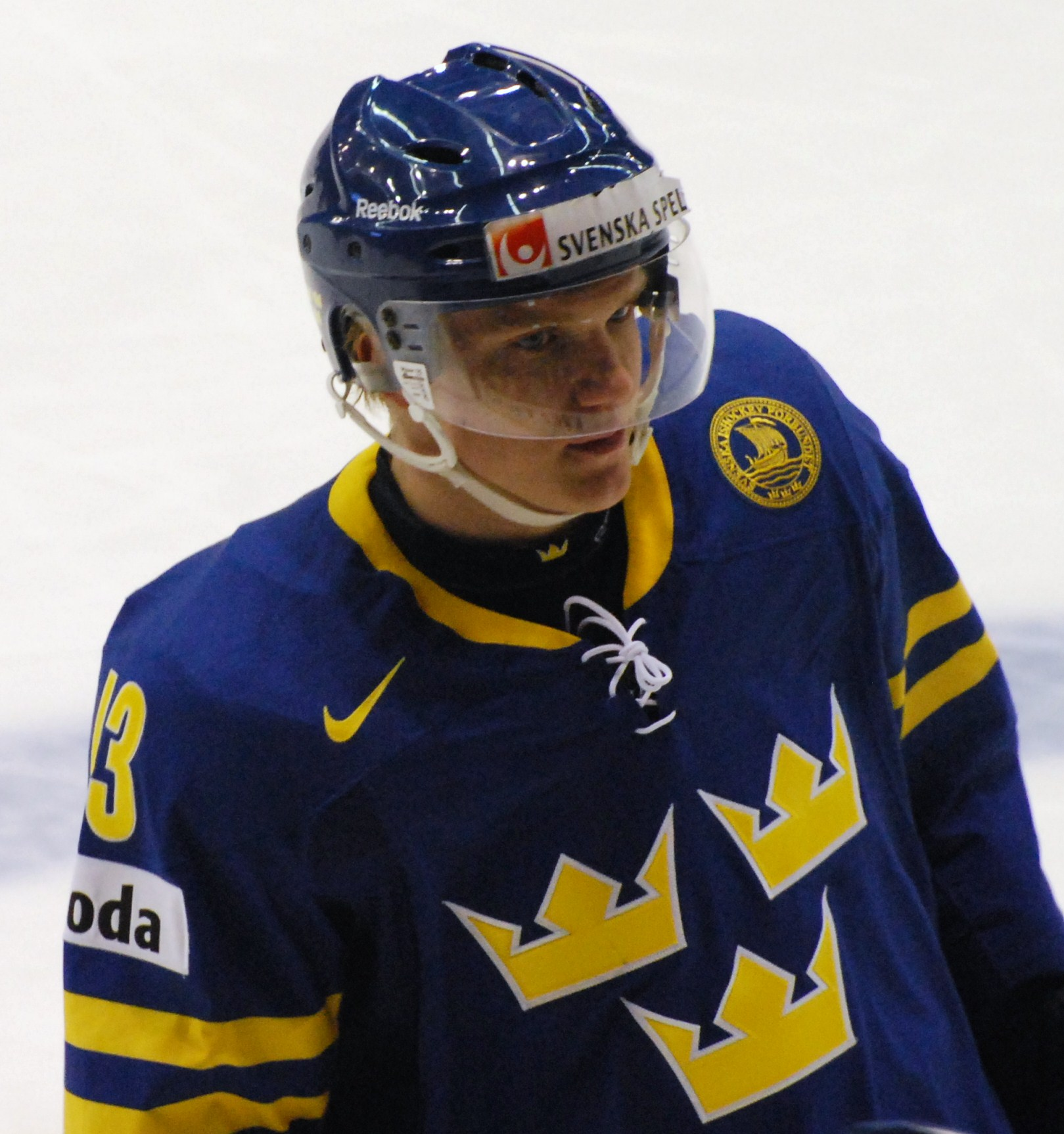 Jakob Silfverberg waits at the bench during a game against Austria at the 2010 World Junior Championships.